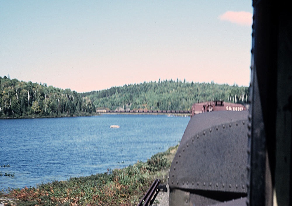 Shot from outside cupola of caboose 107 on September 7, 1965 A Roger Puta Photograph Photo 2 of 2